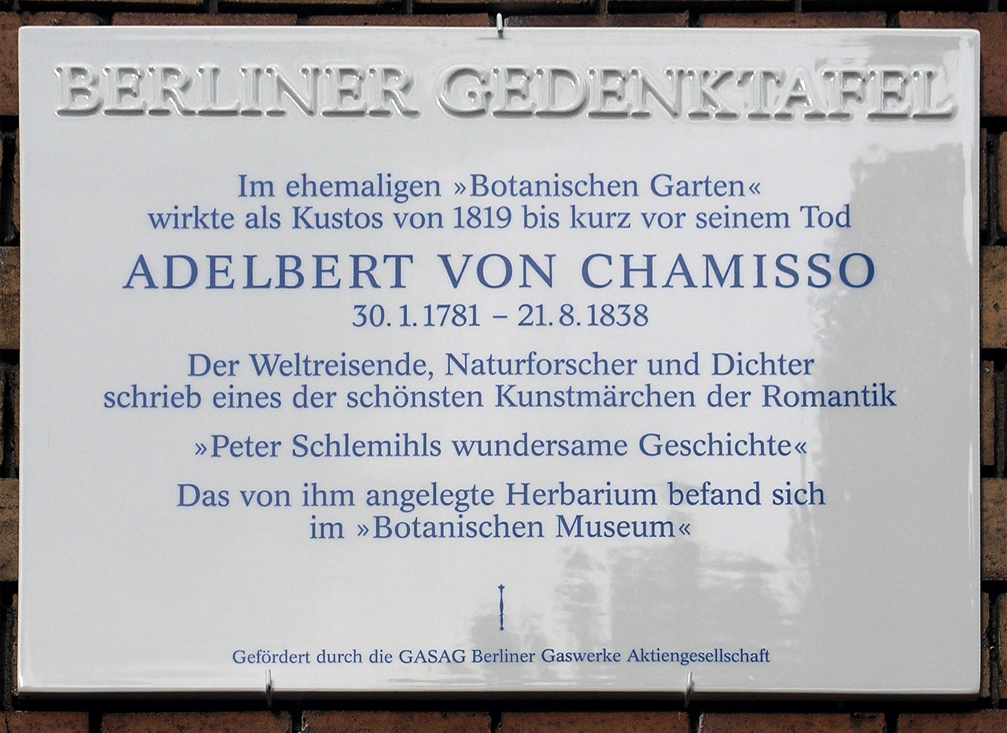 Berlin memorial plaque, Adelbert von Chamisso, Grunewaldstraße 6, Berlin-Schöneberg, Germany Koordinate:52°29′26″N 13°21′26″E / 52.49056°N 13.35722°E